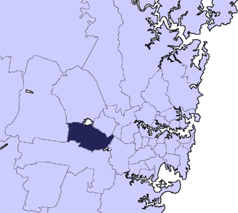 Locator Map Fairfield lga sydney.png Based on Image:Ku-ring-gai sydney.png by User:Randwicked.